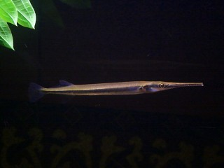 One of my needlenose fish (Xenentodon cancila)